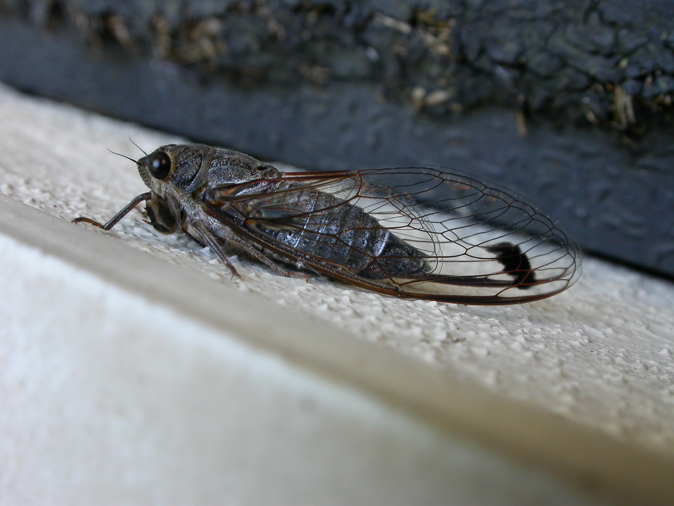 Cicadetta labeculata (Distant, 1892), to MV light, Aranda, ACT 30/31 December 2010